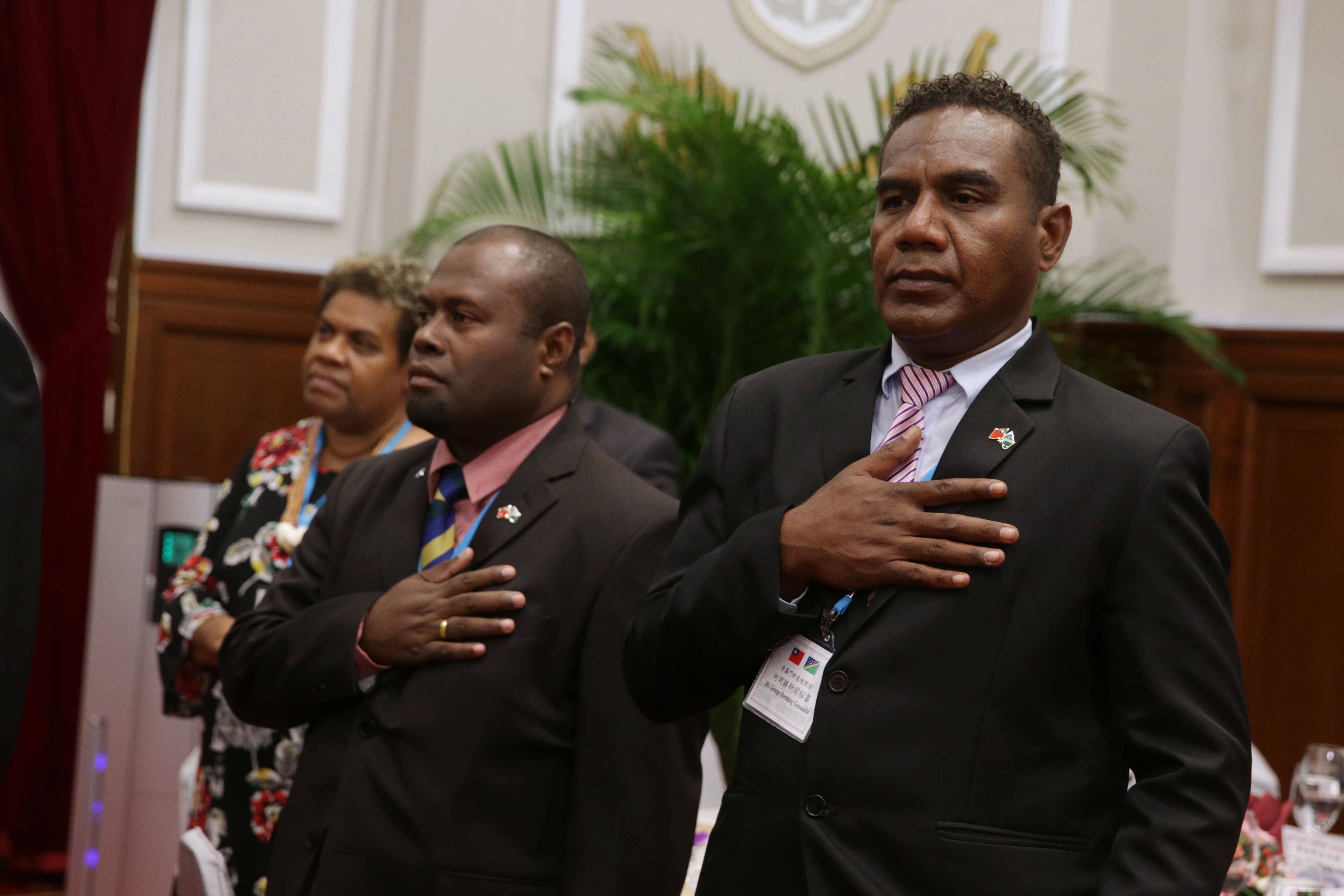 授權方式及範圍：中華民國總統府│政府網站資料開放宣告 Authorization Method & Scope: Office of the President, Republic of China (Taiwan) | Government Website Open Information Announcement